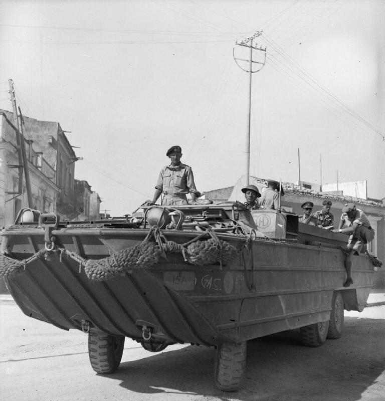 The British Army in Sicily 1943 General Montgomery travels in a DUKW, 12 July 1943.